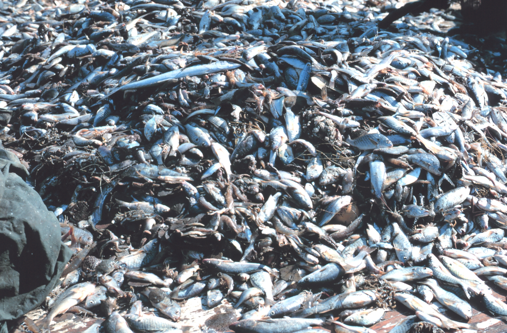 Shrimp by-catch (Location: East Coast of Florida)